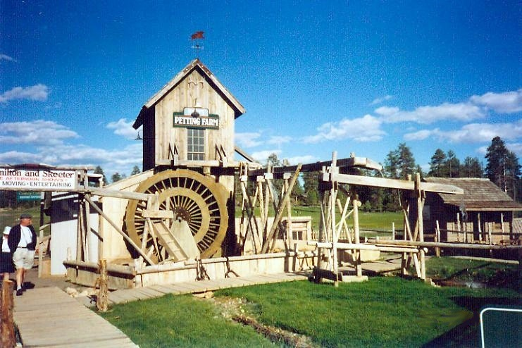 Tourist attraction in the Bryce Canyon